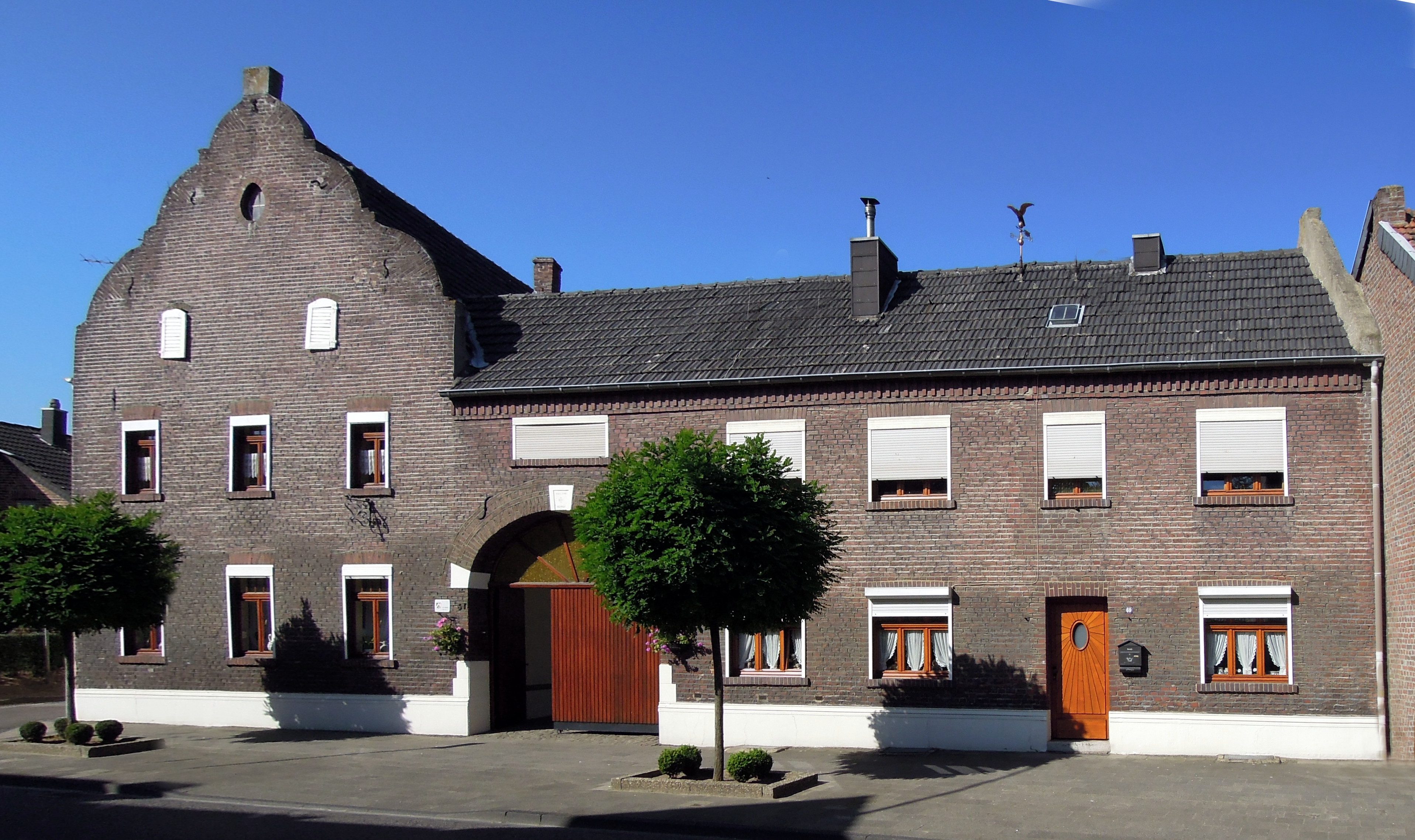 Cultural heritage monument No. 12 in Übach-Palenberg